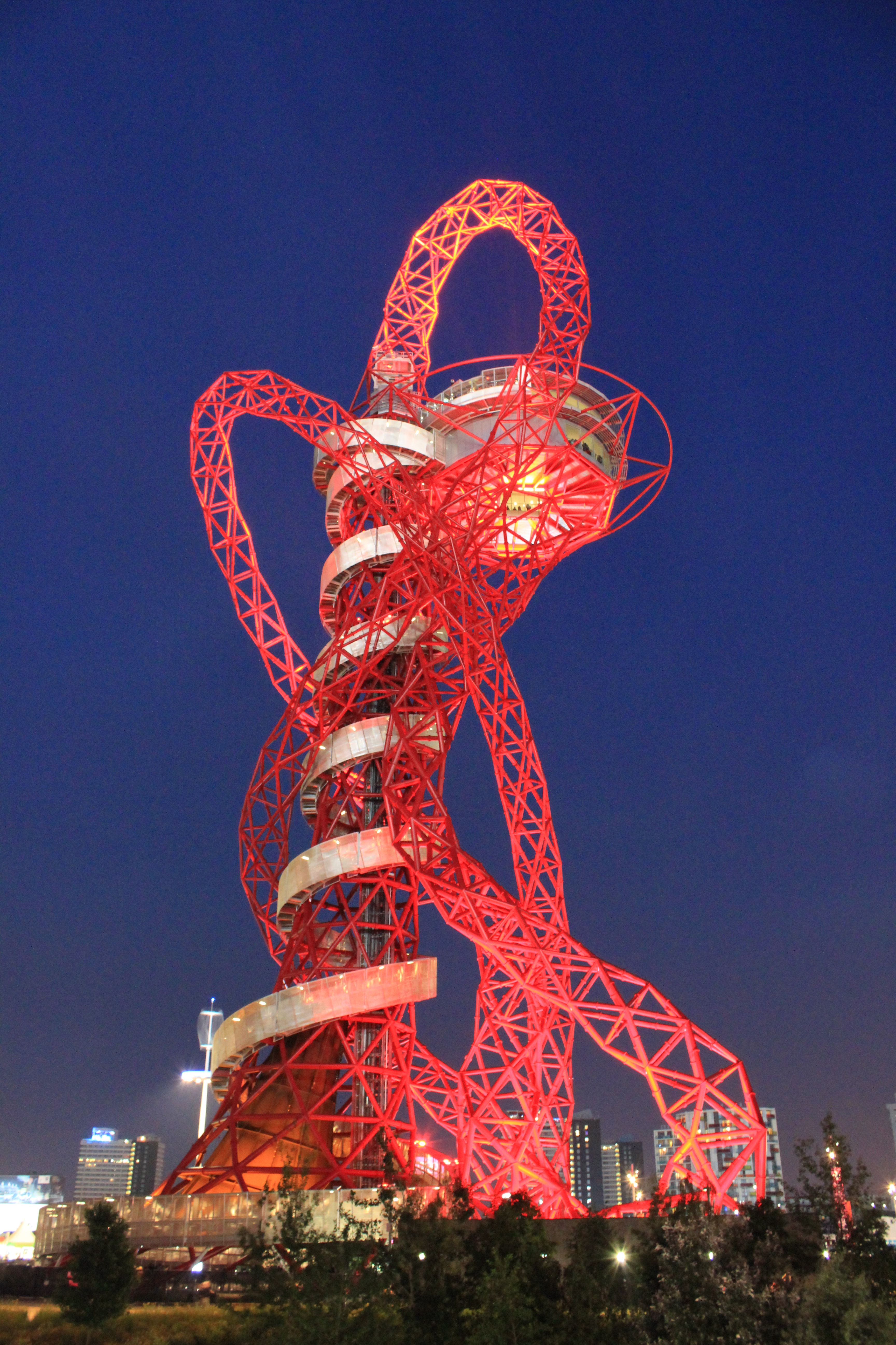 The Orbit — at night.